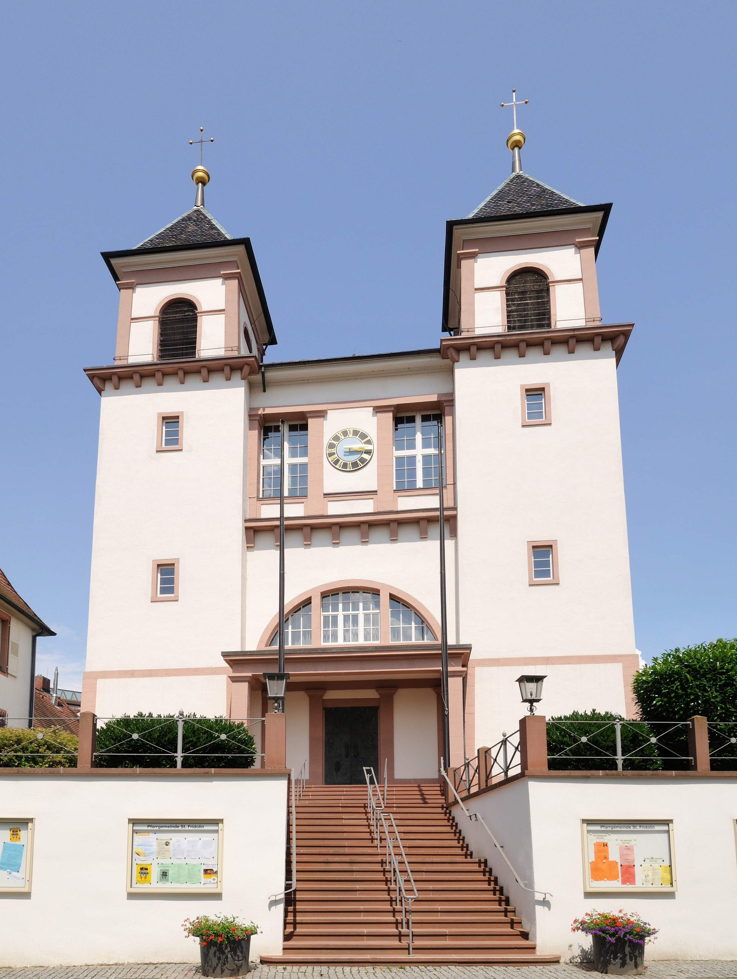 Lörrach: Church Saint Fridolin